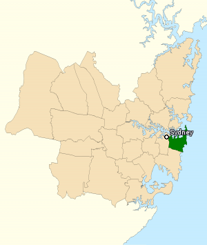 This image incorporates data that is: © Commonwealth of Australia (Australian Electoral Commission) 2009 Division of Wentworth 2010